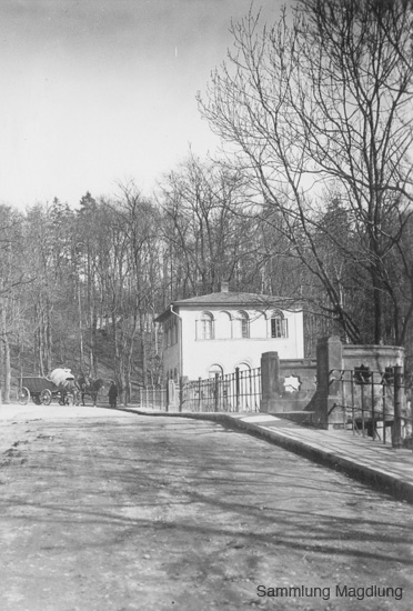 Kegelbrücke, Blick nach Osten auf das 1803 nach Plänen von Heinrich Gentz errichtete Kegeltor. Ansicht von um 1910, Fotograf unbekannt.